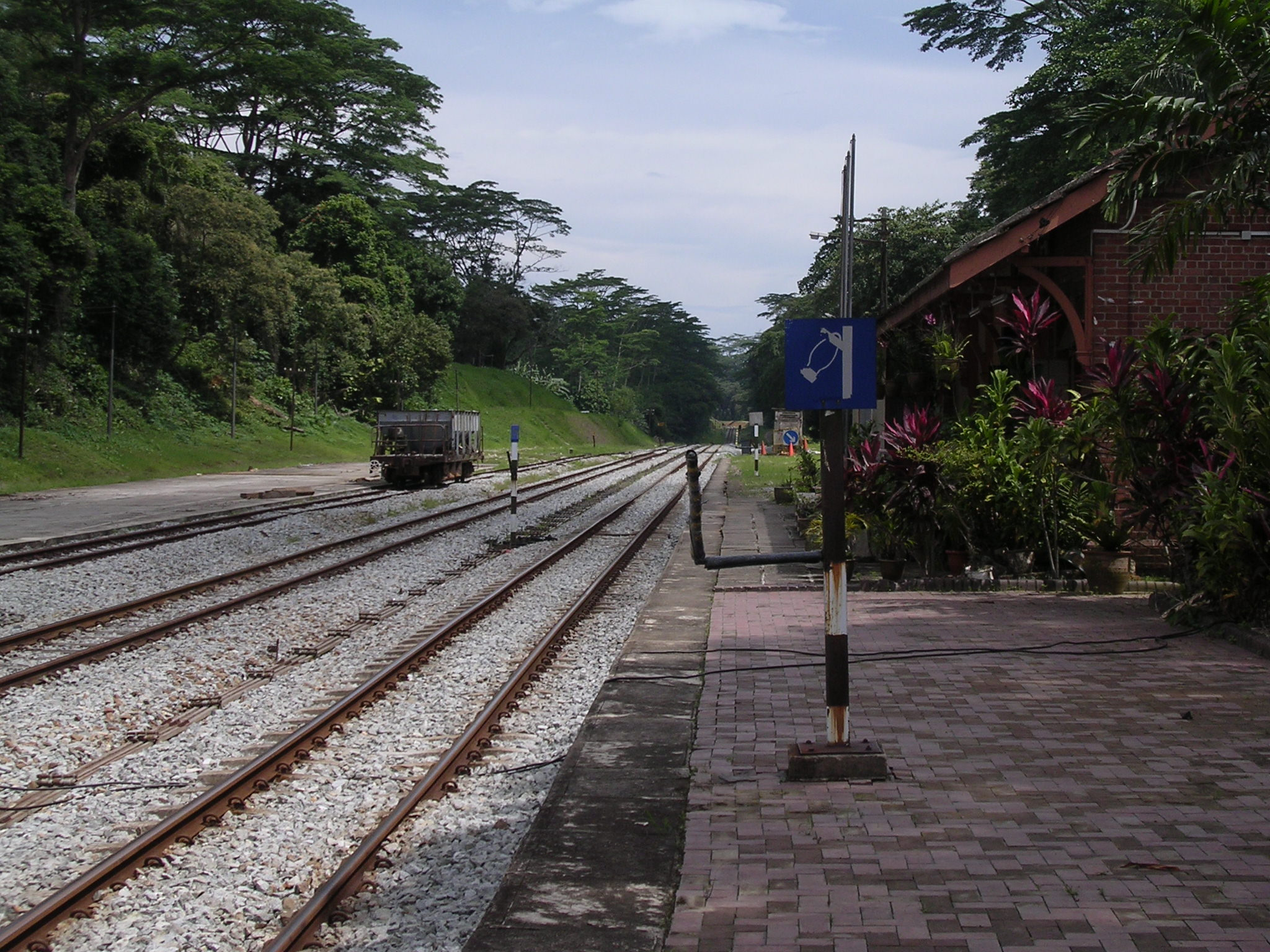 A view of the Keretapi Tanah Melayu (Malaysian Railways) tracks from Bukit Timah Railway Station. The blue sign indicates the zone within which a train driver must pick up a token from the stationmaster in order to continue the journey.